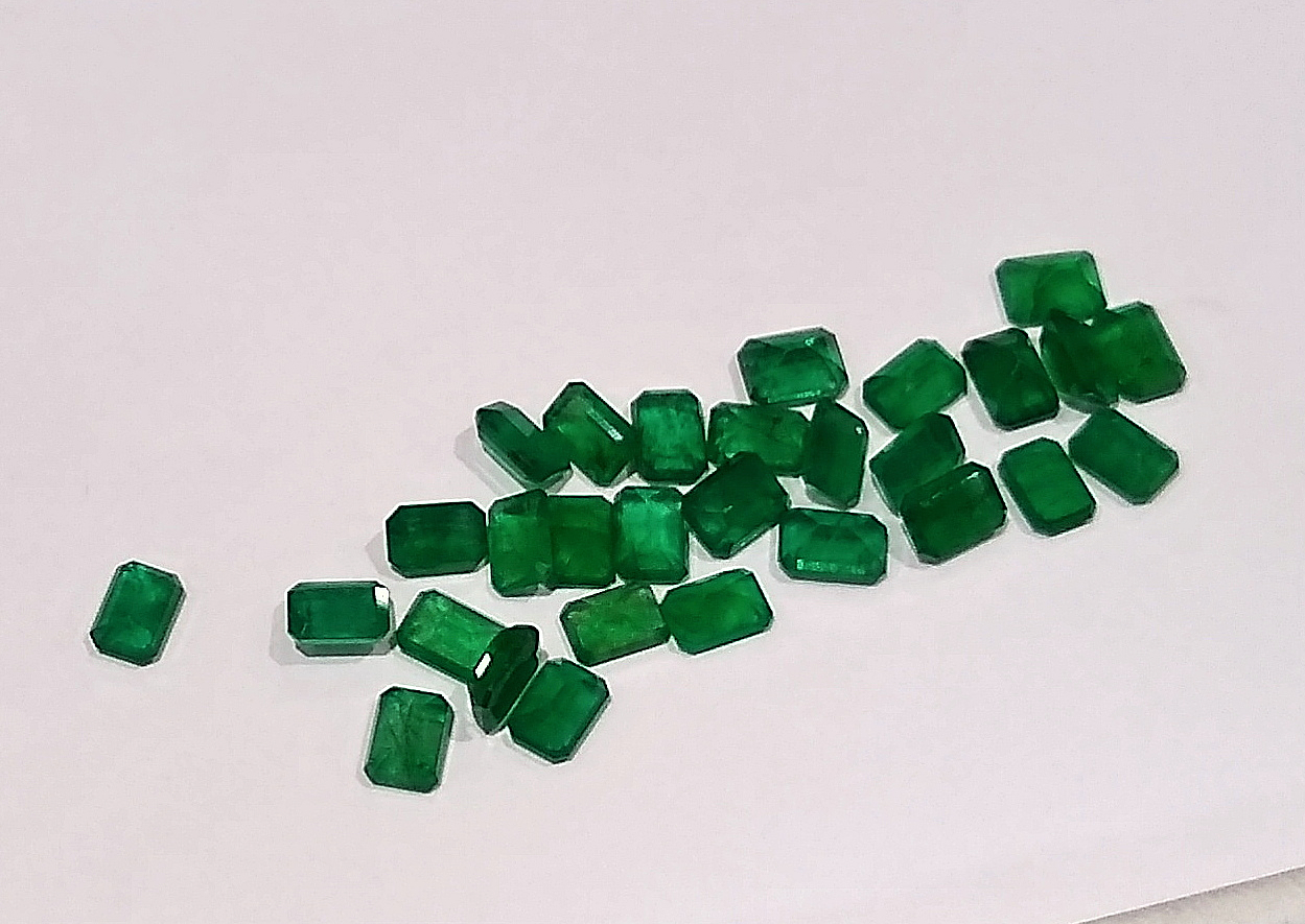 Brazilian minerals